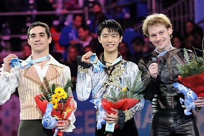 The men's podium at the 2014-2015 Grand Prix of Figure Skating Final. From left: Javier Fernández (2nd), Yuzuru Hanyu (1st), Sergei Voronov (3rd).